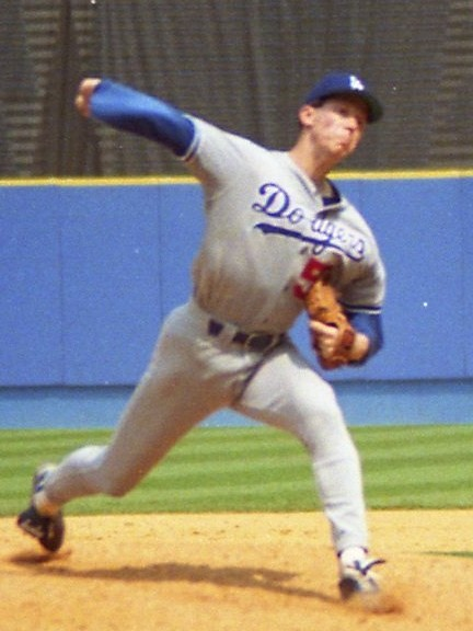 Orel Hershiser pitching for the Los Angeles Dodgers against the Atlanta Braves